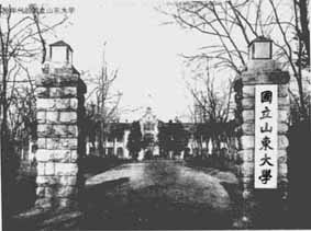 Historical Photograph of the Gate to the campus of the former National Shandong University in Qingdao.